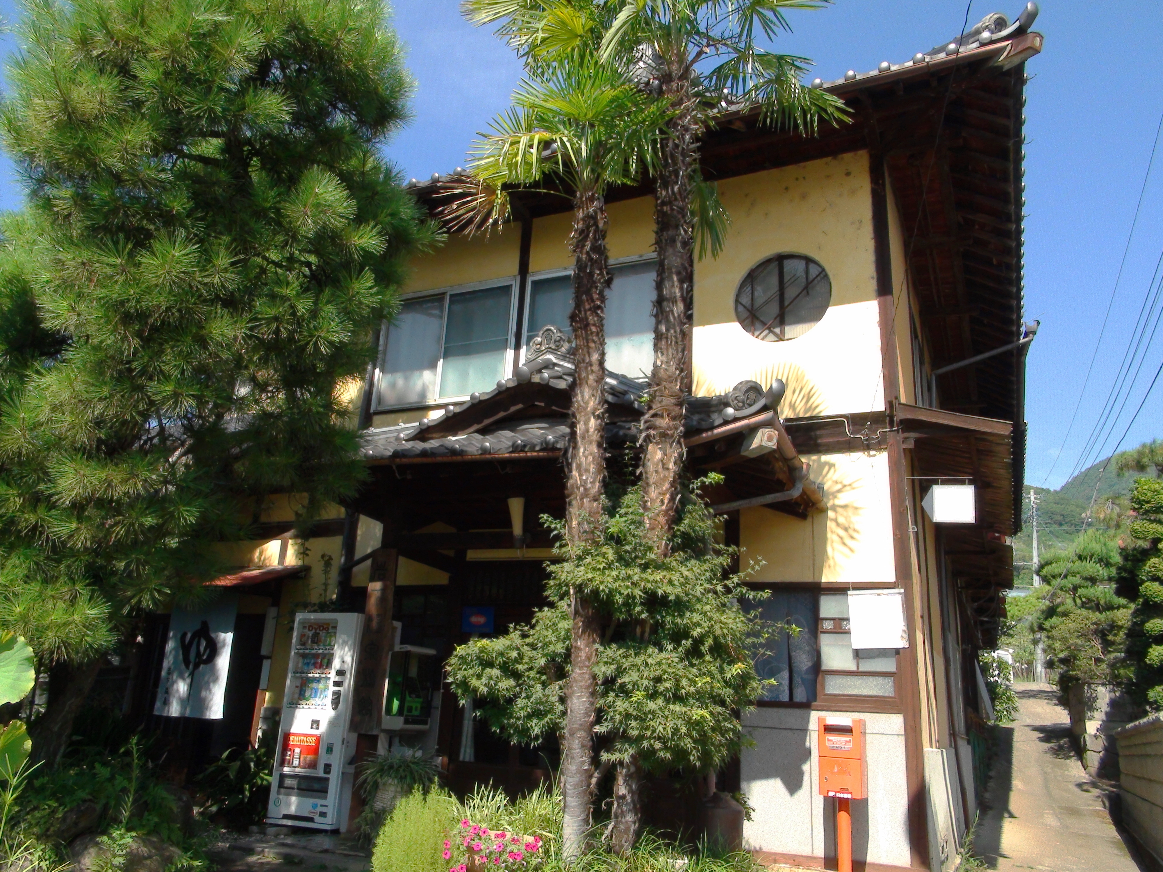 Iwashita hot spring old building in Yamanashi-city